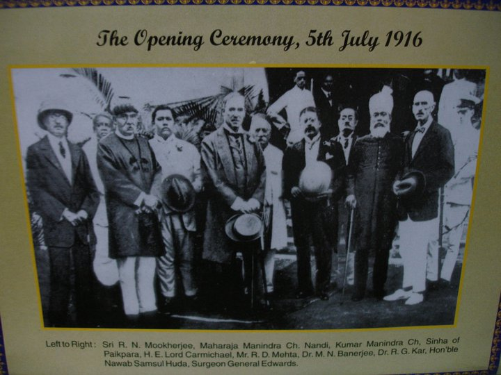 Opening Ceremony RGKMCH